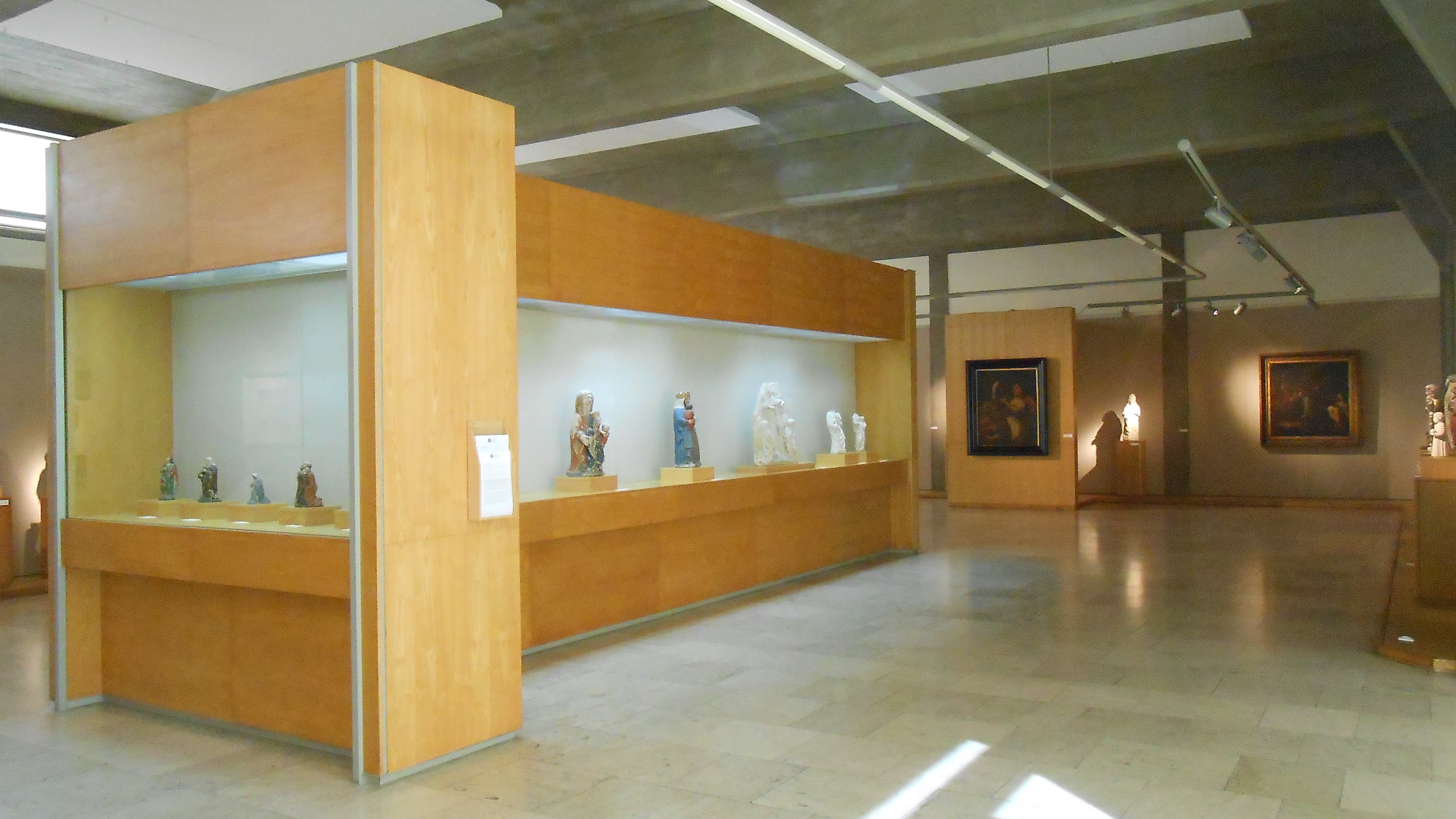 Inside the Museu Municipal Santos Rocha, in portuguese seaside town Figueira da Foz.